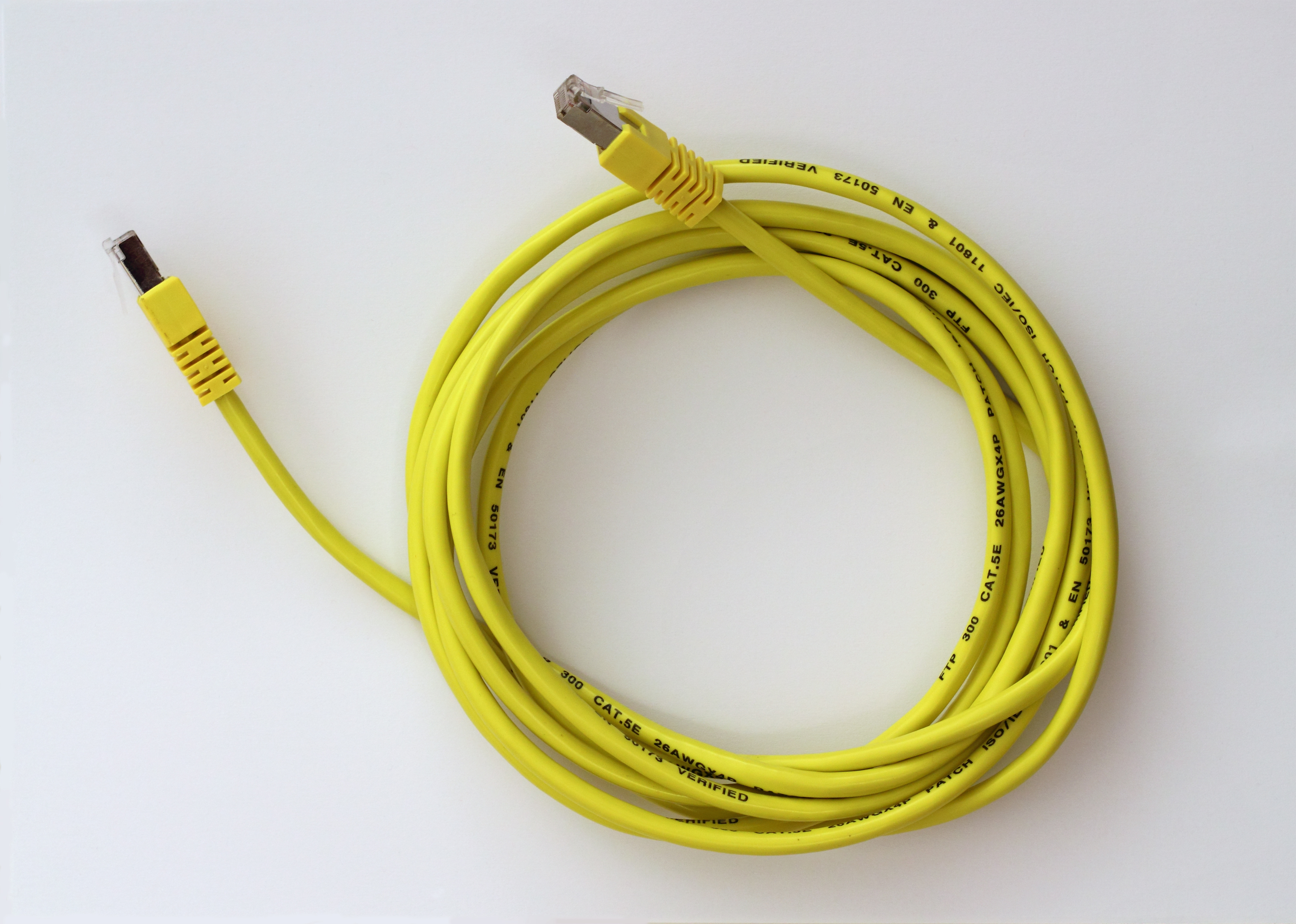 A patch cable for use with an ADSL modem